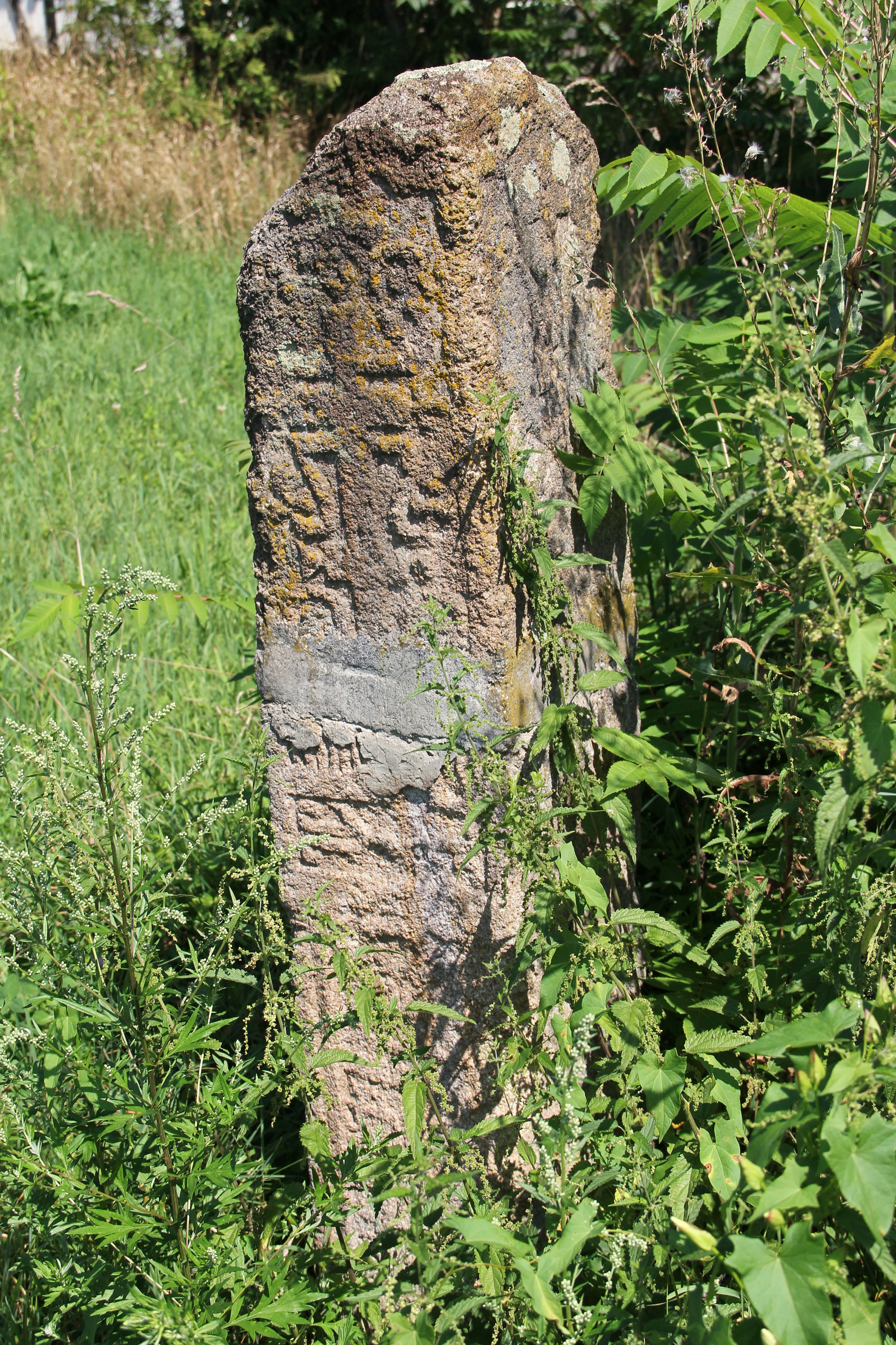 Roadside tombstone erected in memory of Simeon Jelic. It is located in Mlakovac hamlet, the village of Brusnica (the municipality of Gornji Milanovac), Serbia.